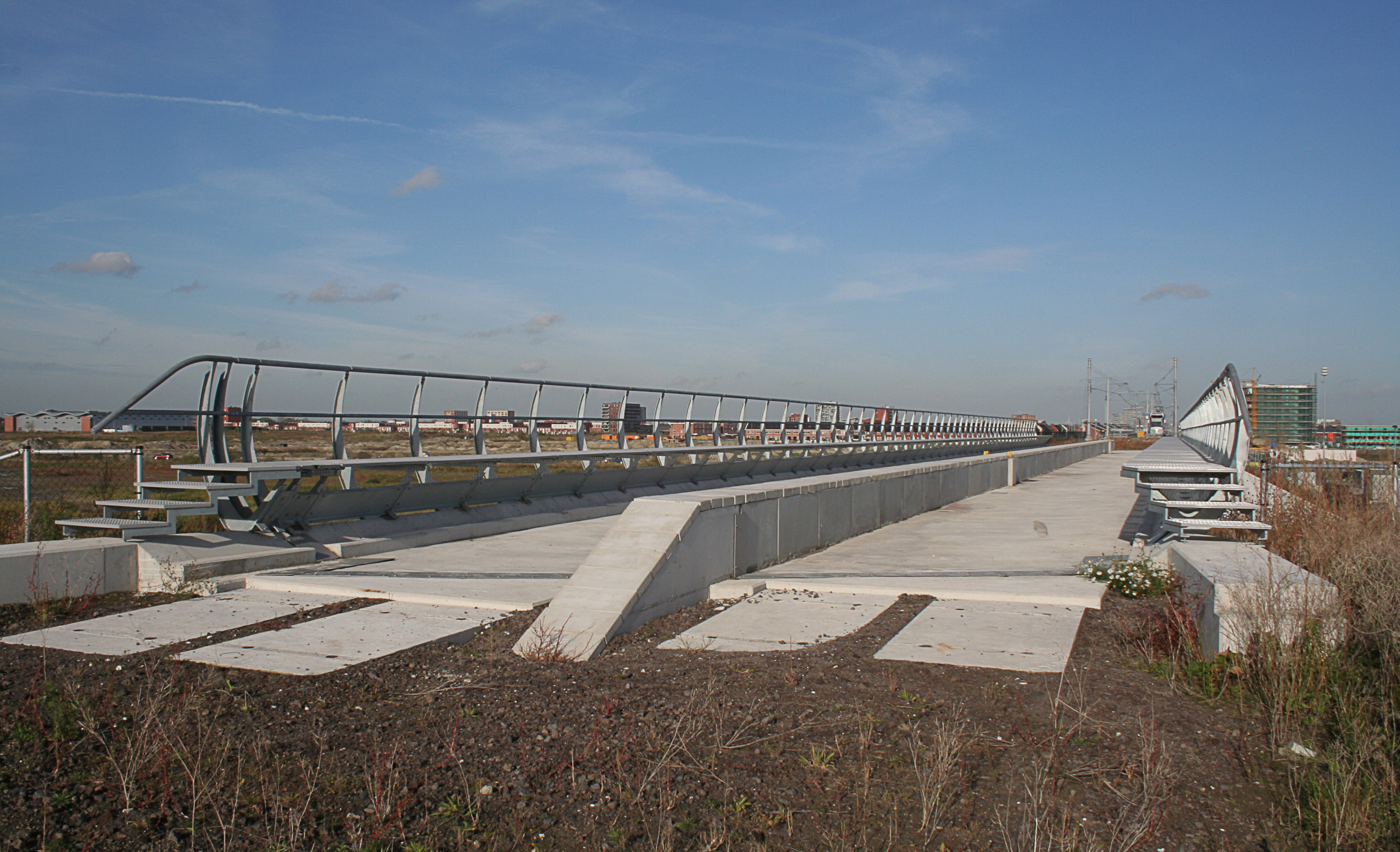 Extension to BleiZo